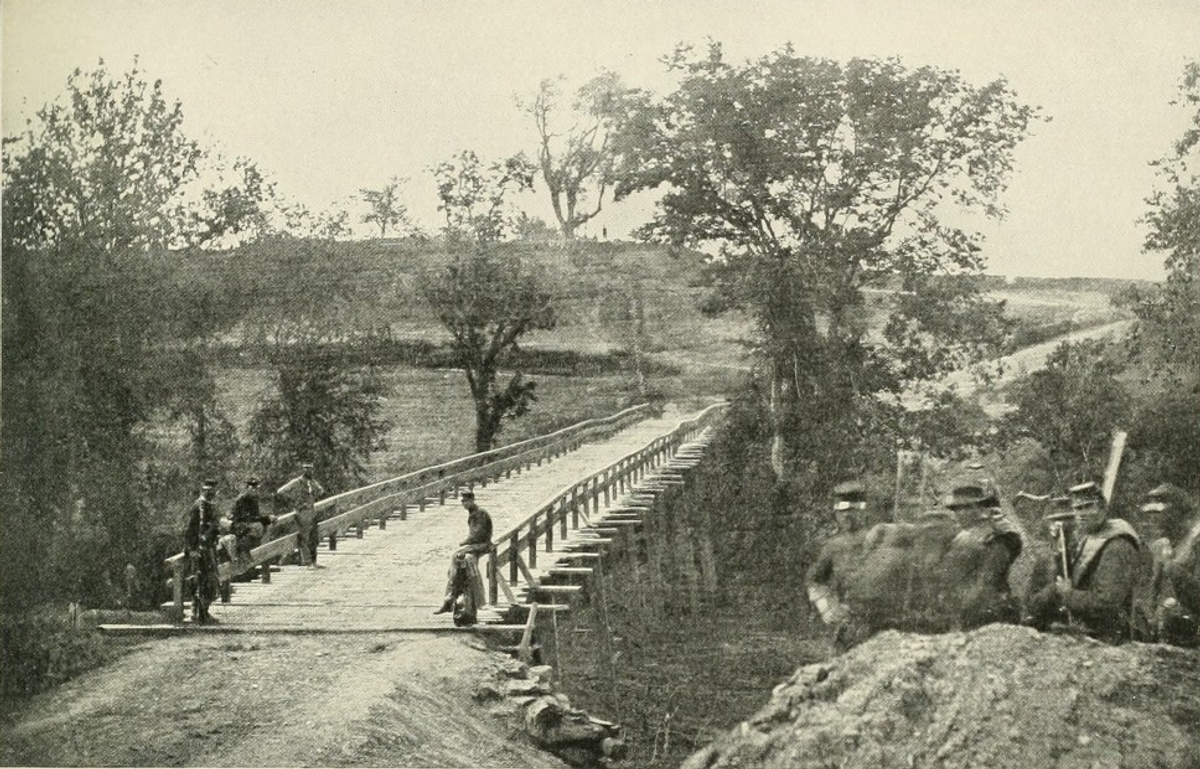 Taylor's Bridge, also known as the Chesterfield Bridge, where the Telegraph Road crosses the North Anna River. The 93rd New York Infantry seized the bridge under fire before the Confederates could destroy it.